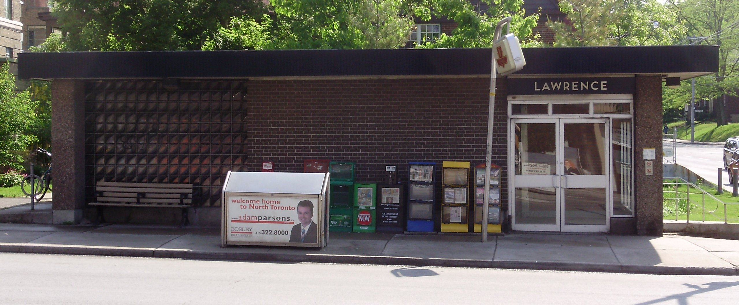 The Toronto Transit Commission's Lawrence station in Toronto, Canada.